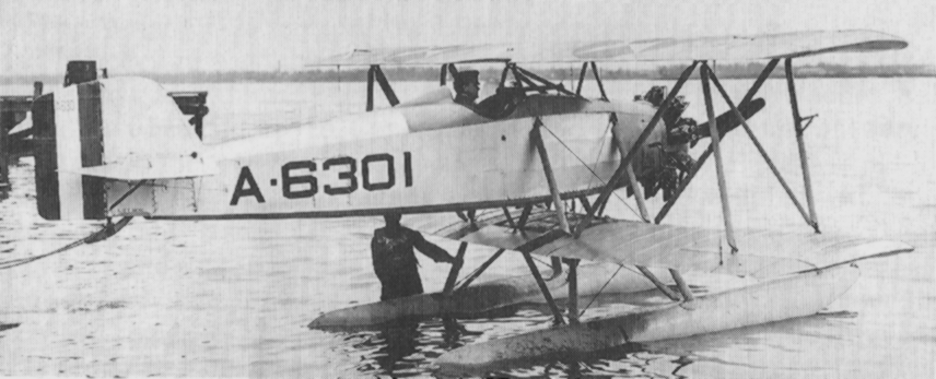 The second built U.S. Navy Naval Aircraft Factory TS-1 (BuNo A-6301). The TS-1 was the first U.S. Navy carrier-based plane specifically designed for this purpose. Its designation "TS" stood for "turret scout", as it was originally planned to operate it from platforms on gun turrets of battleships. Although designed by the Bureau of Aeronautics, only five were built by the NAF, a contract for 34 TS-1s was awarded to Curtiss.